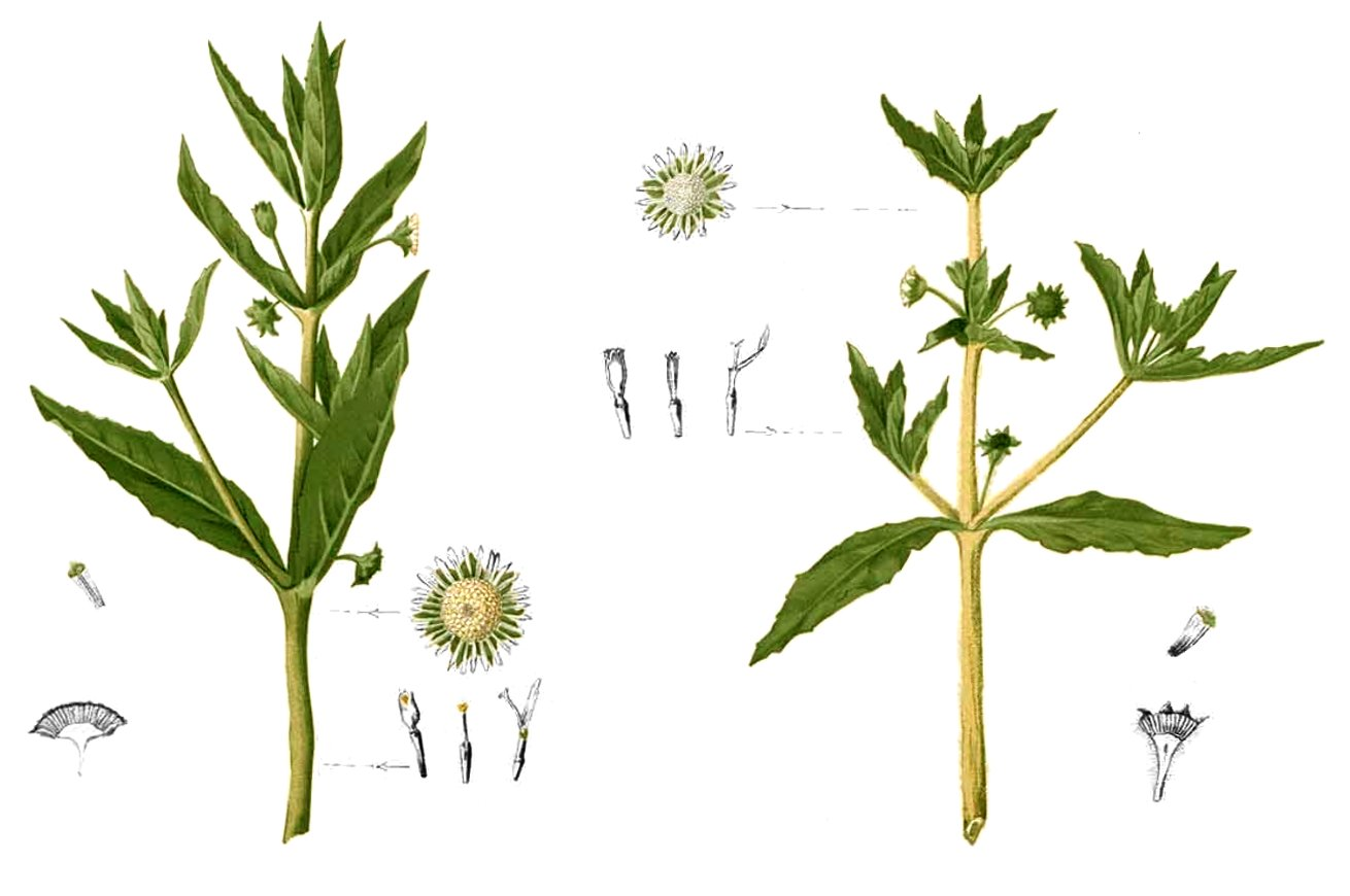 Artemisia viridis, Plate from book